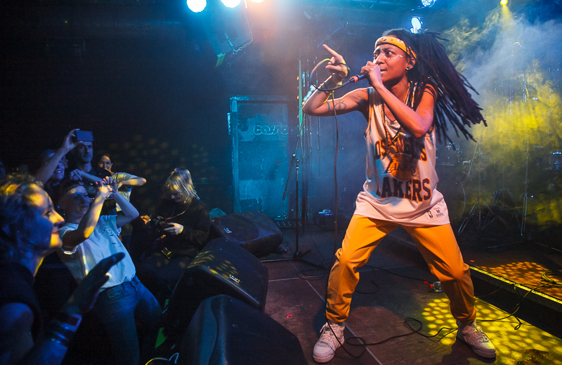 KT Gorique performing at Cassiopeia, Berlin